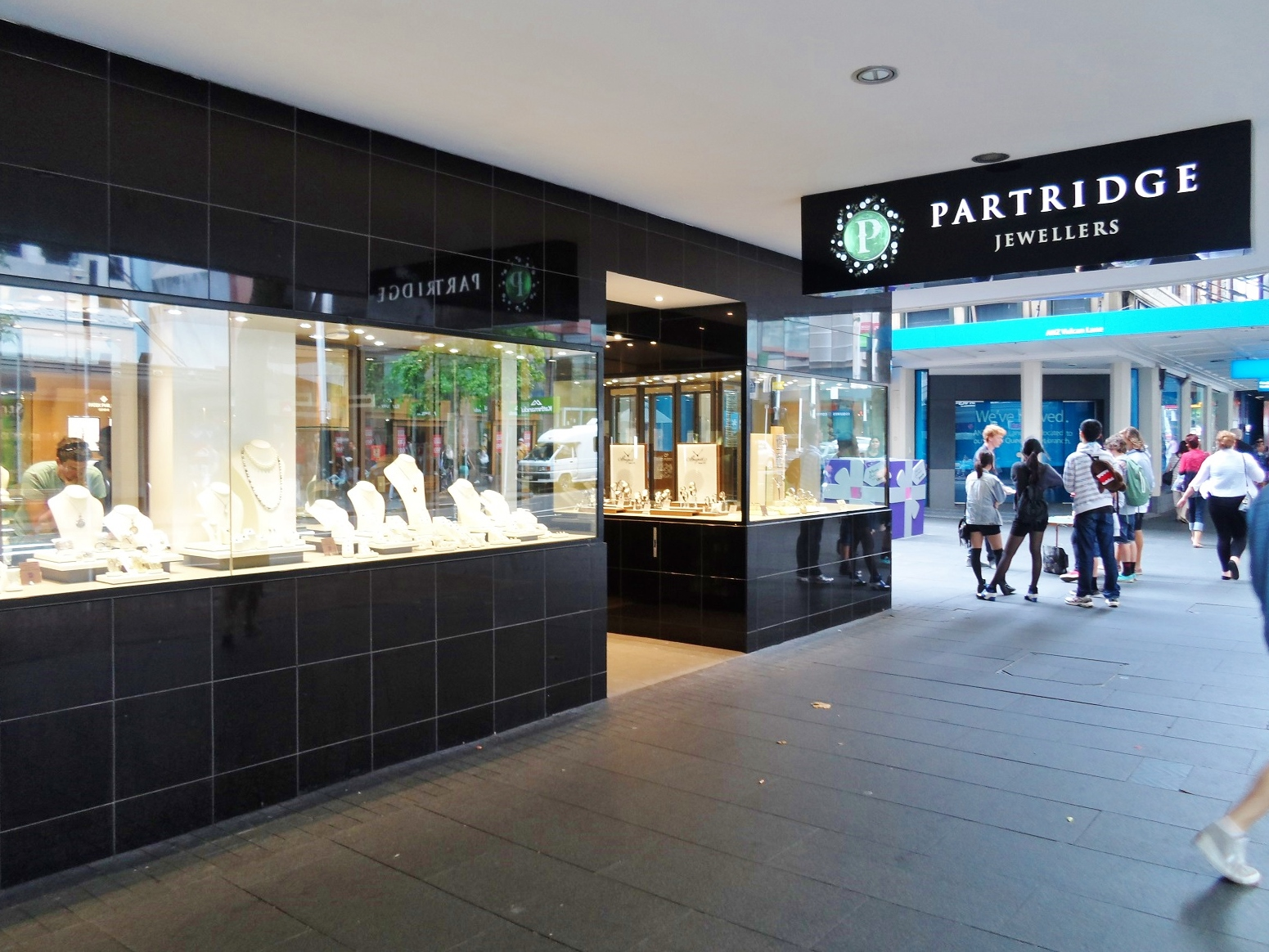 New Zealand retail jeweller Partridge Jewellers Queen Street, Auckland store in 2013.